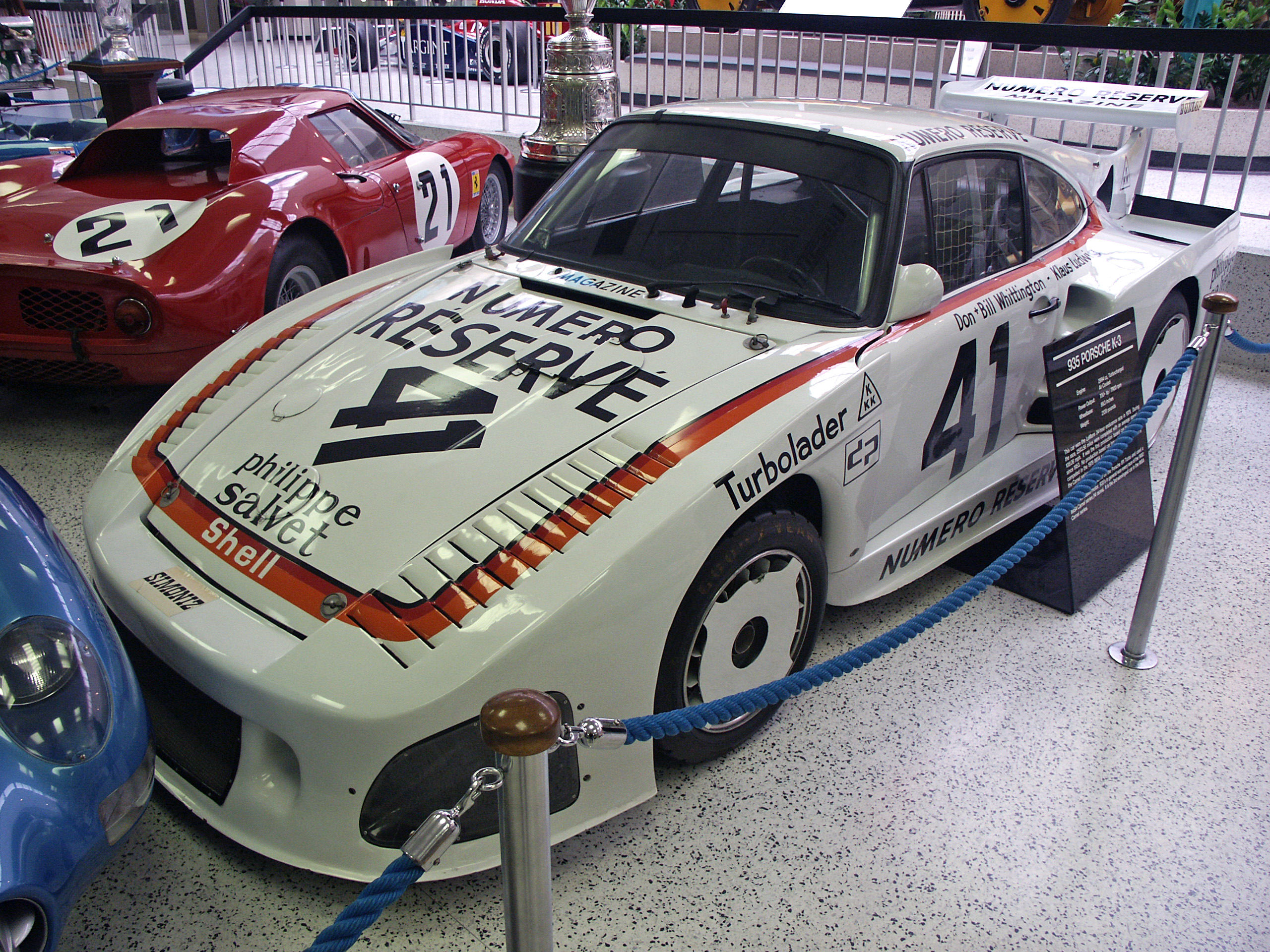 This Kremer Porsche 935 K3 won the 24 Hours of Le Mans in 1979, driven by Klaus Ludwig, Don Whittington and Bill Whittington.